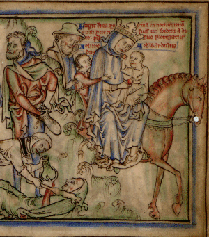 Queen Emma to Normandy with her two young sons